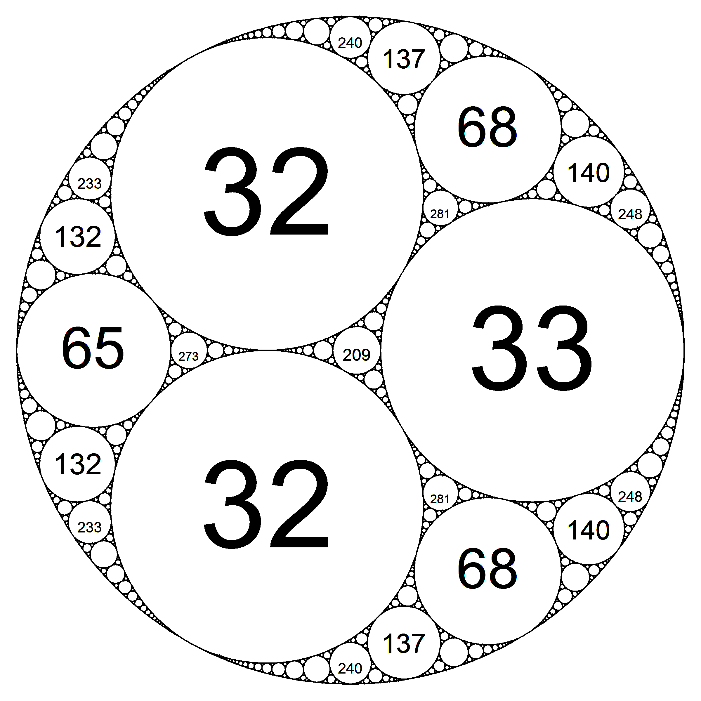 Integral Apollonian circle packing, defined by circle curvatures of (-15,32,32,33), with curvature labels for the largest circles; an example of an Apollonian gasket with nearly-three-fold symmetry.